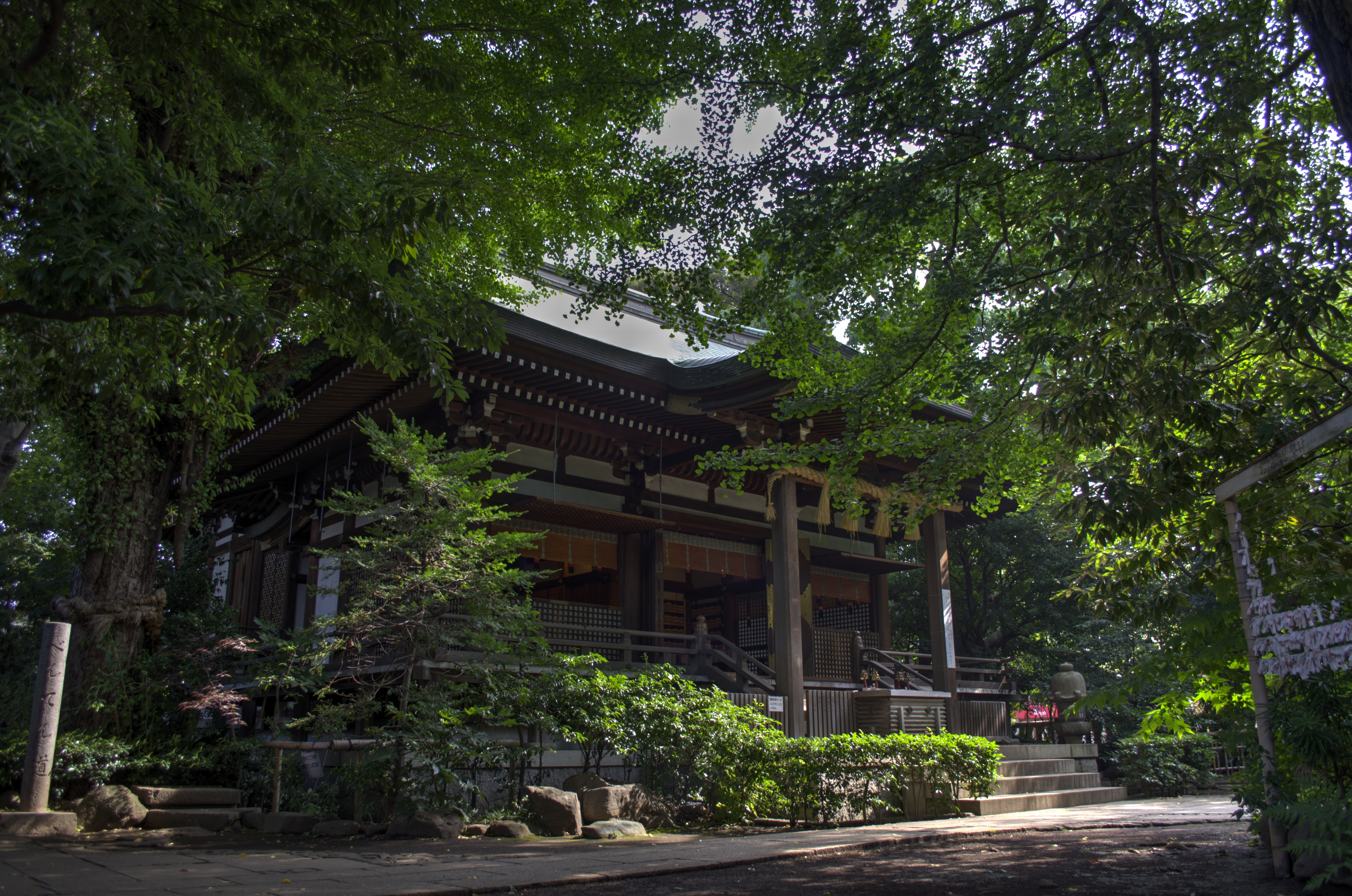 Main Hall of Okusawa Shrine in Tokyo.